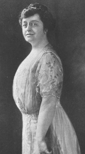 A middle-aged white woman standing almost in profile, wearing a short-sleeved light-colored gown. Her dark hair is arranged in an updo.